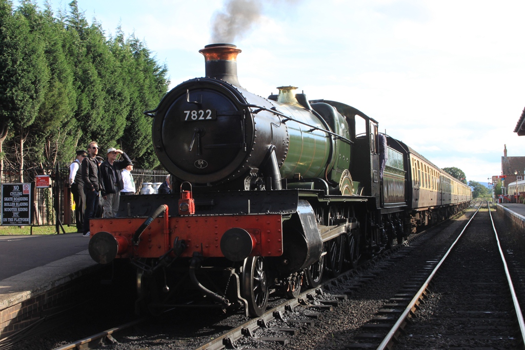 Visiting 'Manor Class' 7822 Foxcote Manor prepares to leave Bishops Lydeard station on the West Somerset Railway.